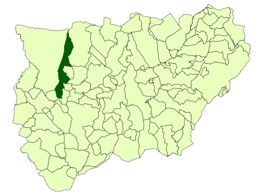 Situation of the municipality of Villanueva de la Reina (Jaén, Andalusia, Spain).